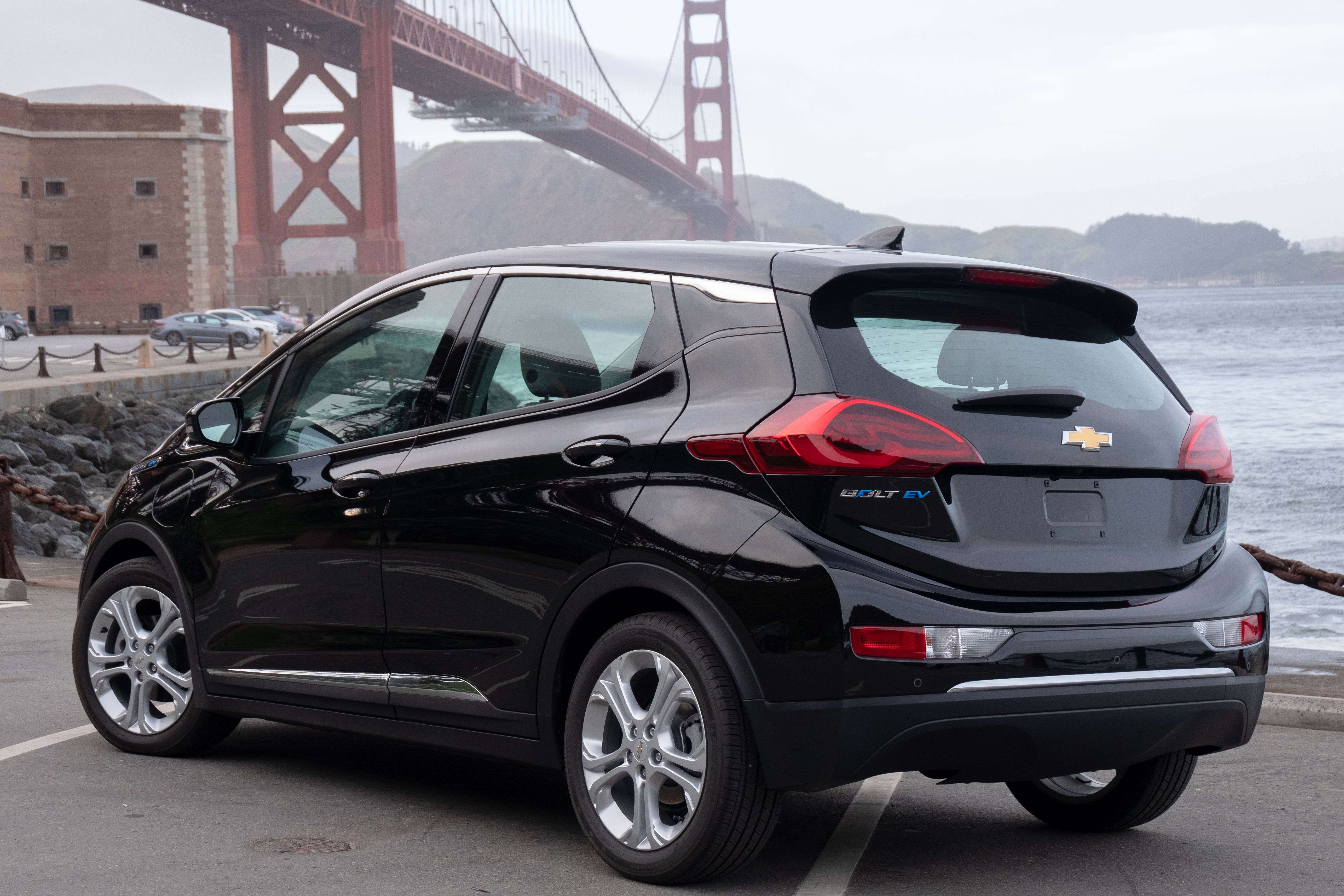 2019 Chevrolet Bolt EV taken in San Francisco in April 2019